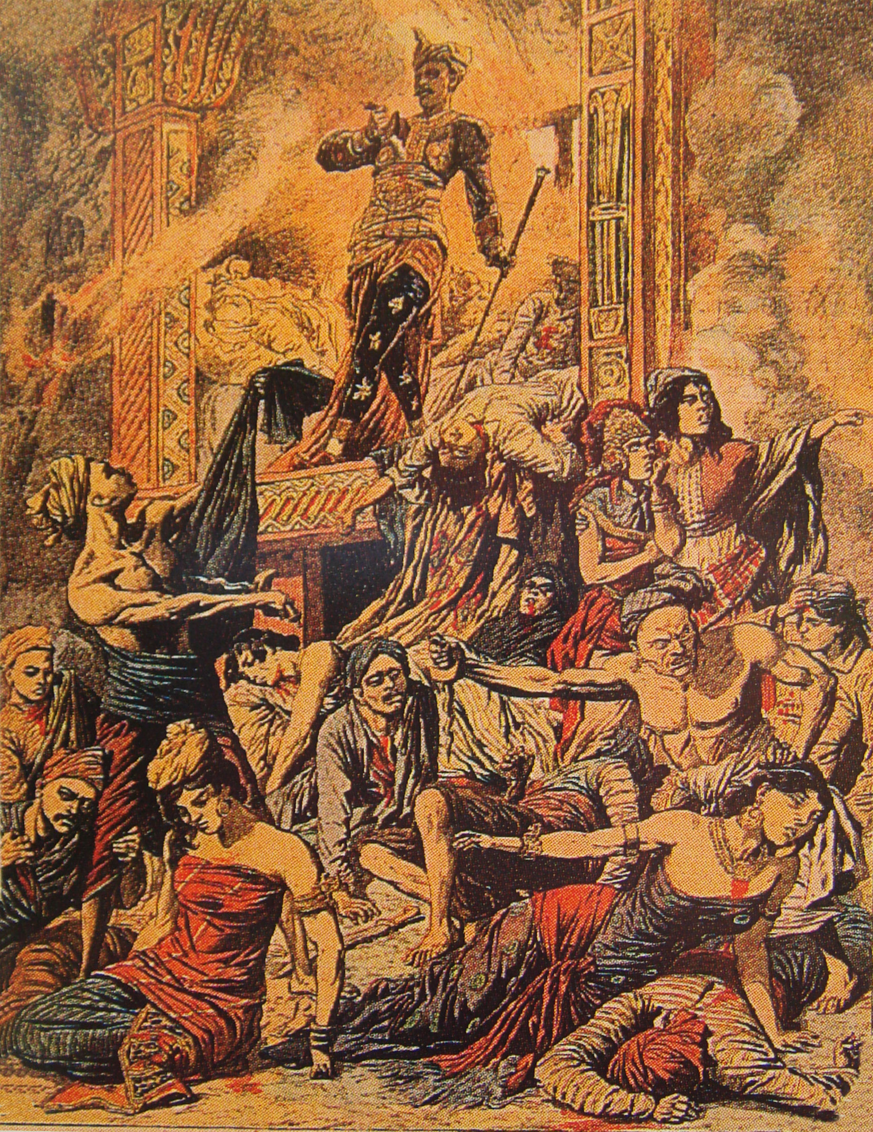 Puputan_of_the_Raja_of_Boeleleng